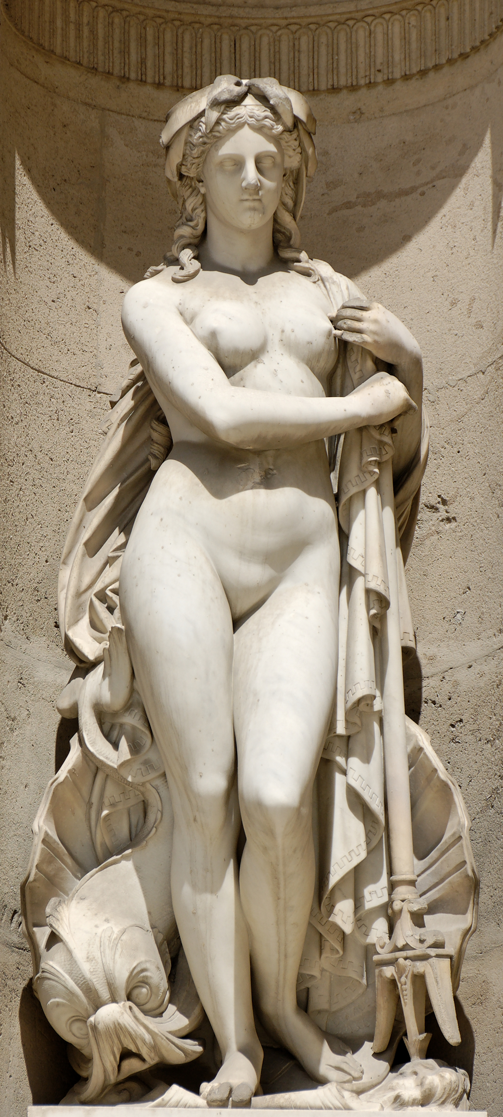 Amphitrite (1866), by François Théodore Devaulx (1808-1870). North façade of the Cour Carrée in the Louvre palace, Paris.